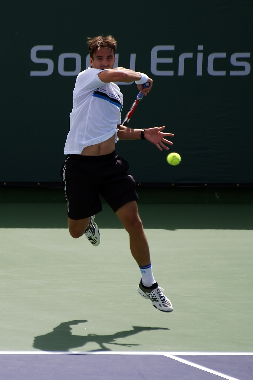 Tommy Robredo hits a forehand at the Pacific Life Open 2008 masters series tournament in India Wells, California in his match against Nicholas Massu.